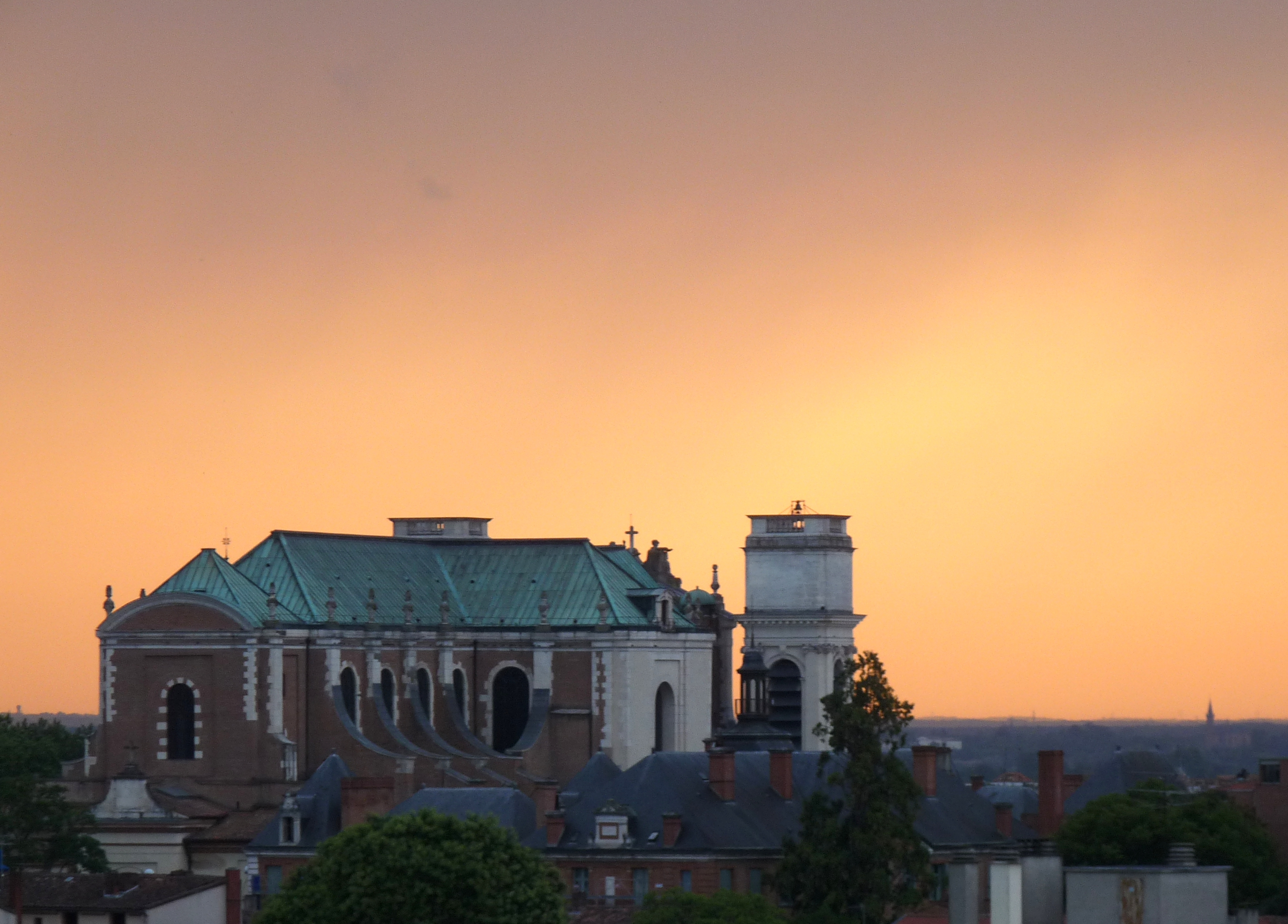 Montauban Cathedral at sunset